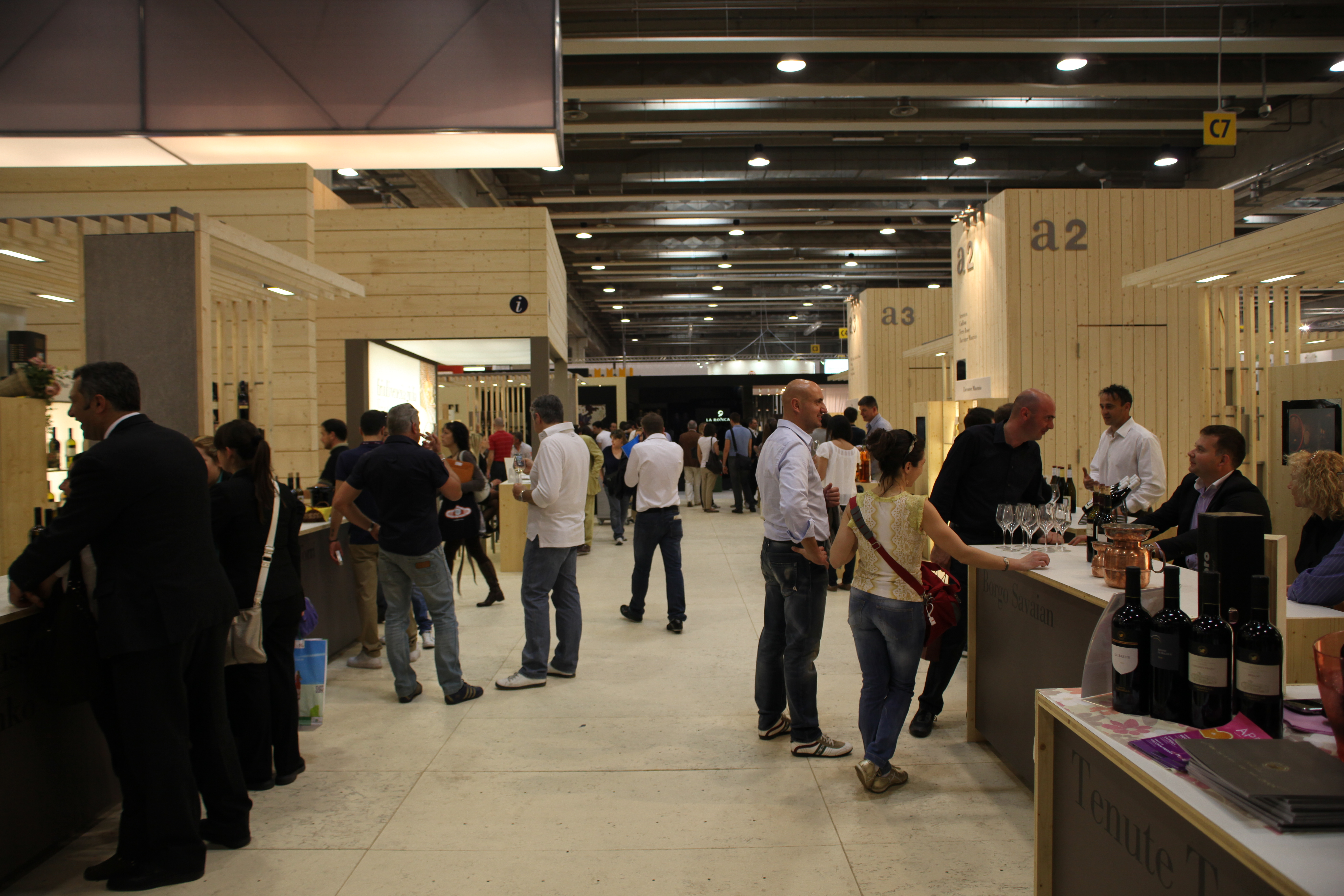 Visitors to Vinitaly 2011 exploring some of the exhibitions and booths